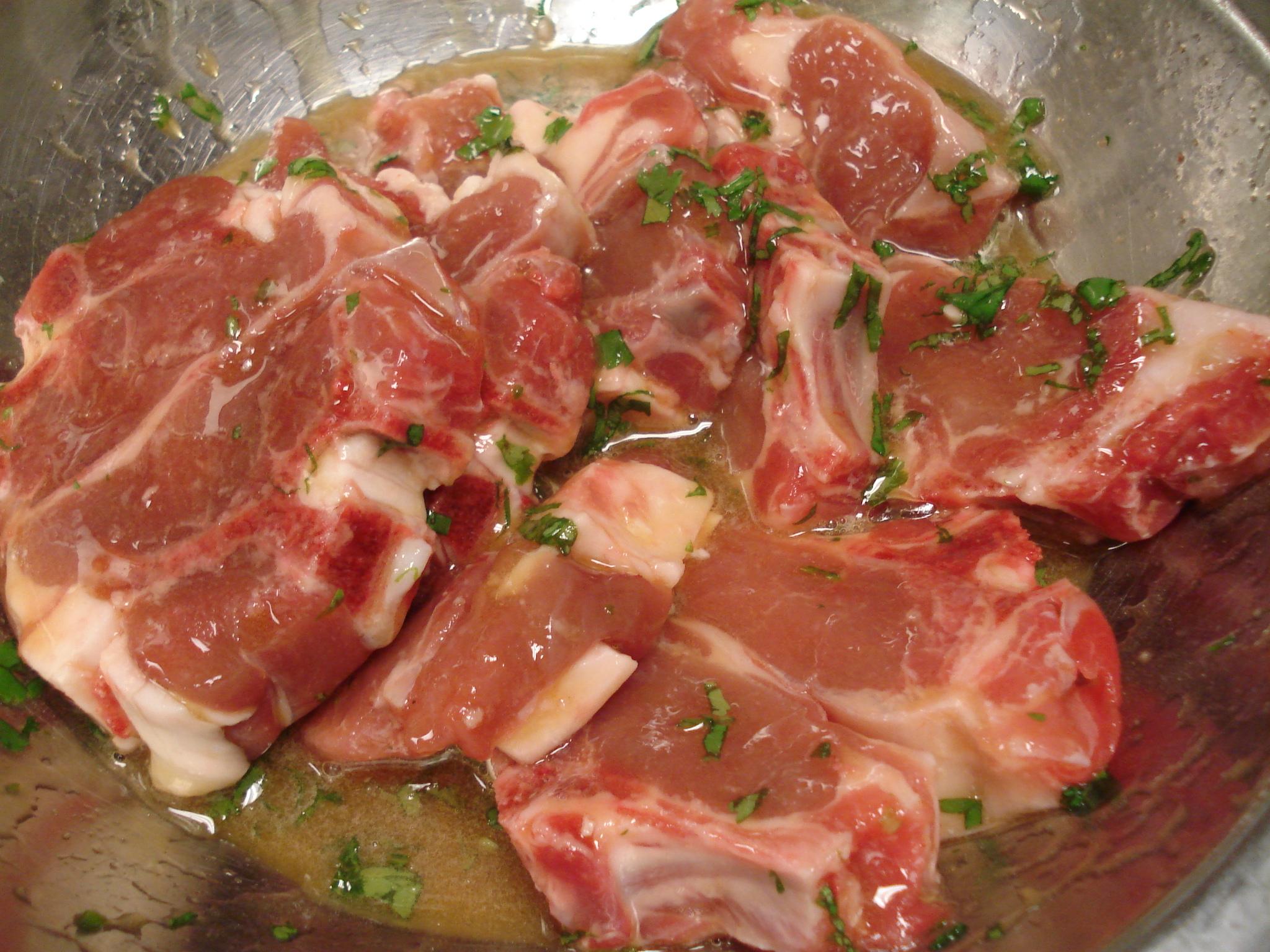 Preparing some apricot glazed goat chops.